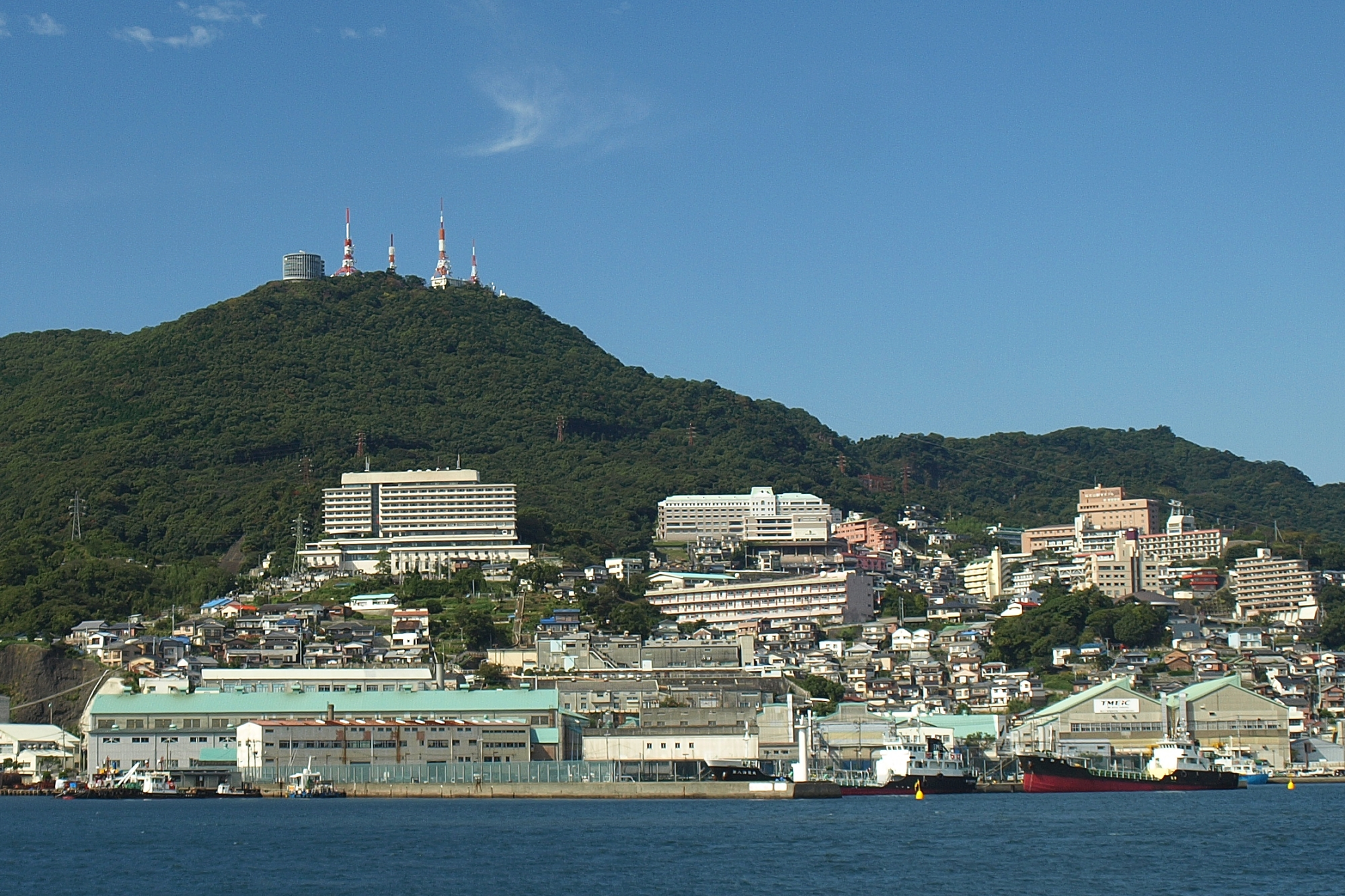 Mount Inasa (Inasayama) in Nagasaki City, Nagasaki Prefecture, Japan, viewed from the Port of Nagasaki